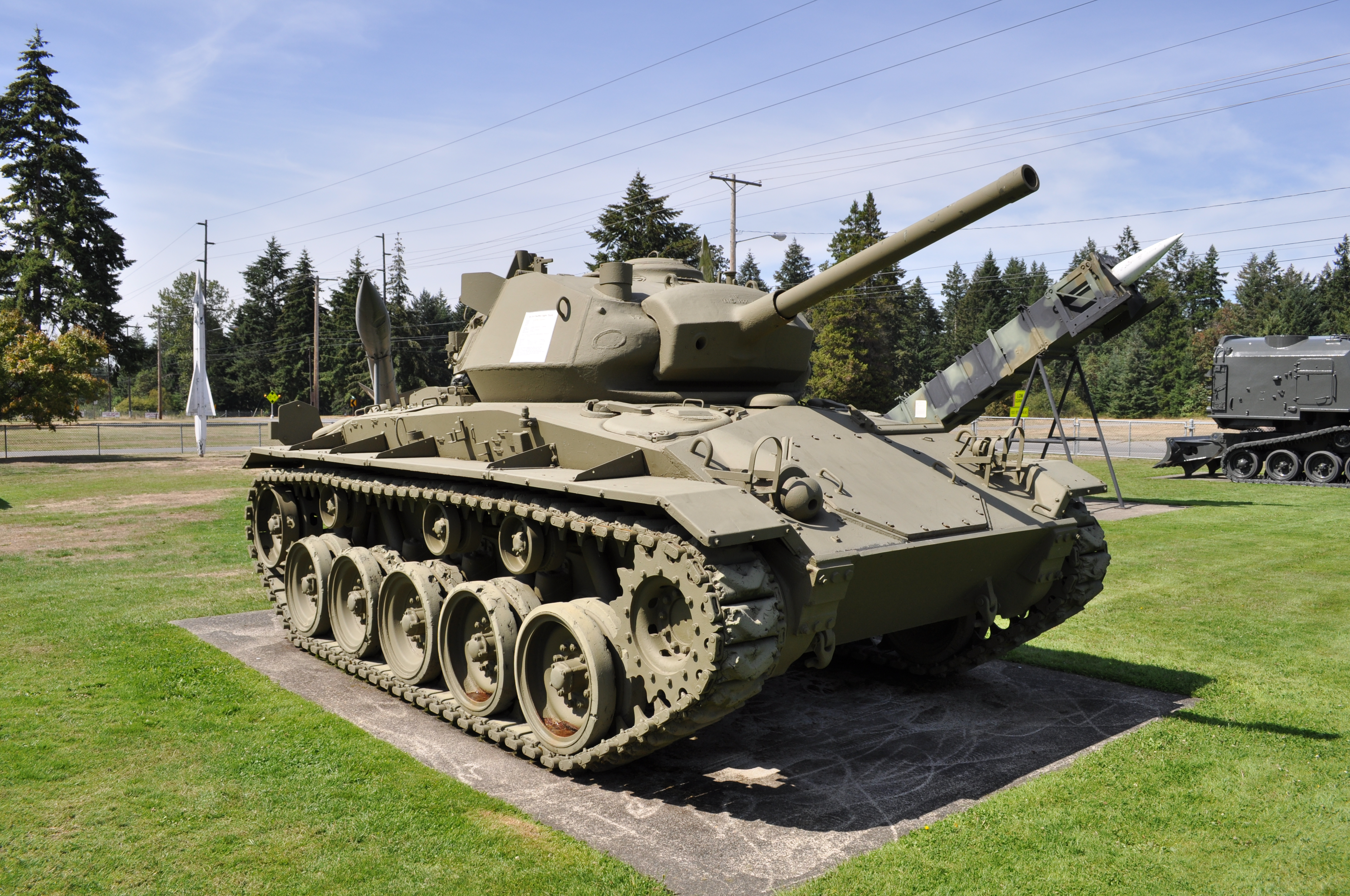 M-24 Chaffee Light Tank, Fort Lewis Military Museum, Fort Lewis, Washington, USA.